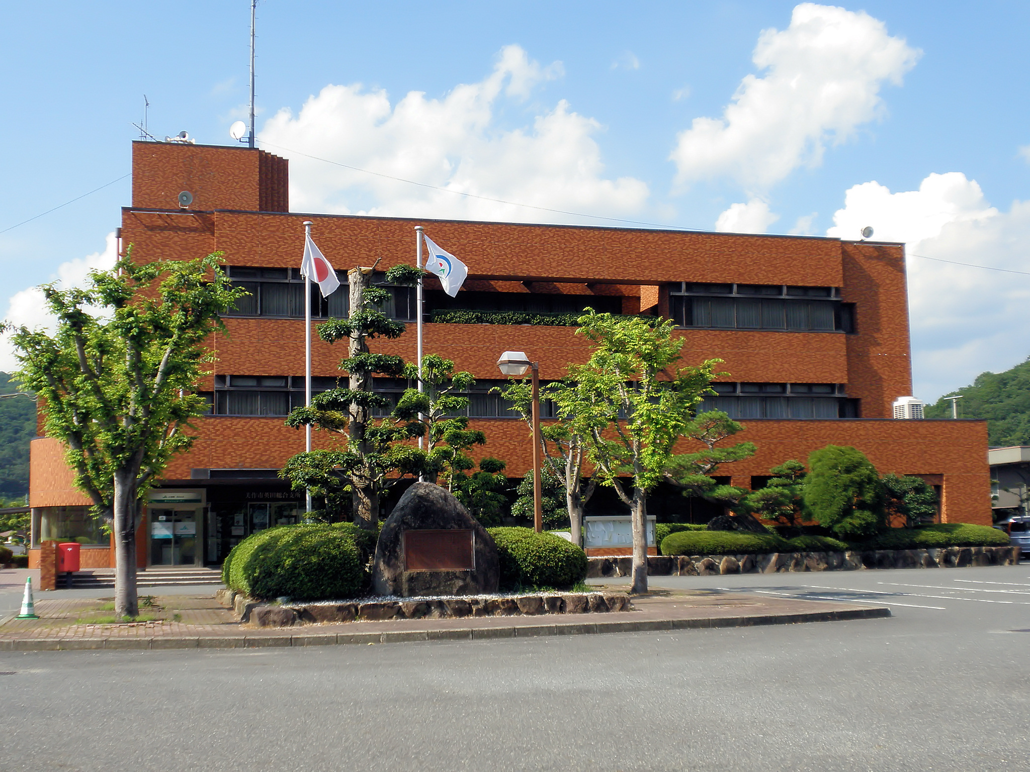 Mimasaka city office Aida branch Former Aida town office (1986.9 - 2005.3.30)